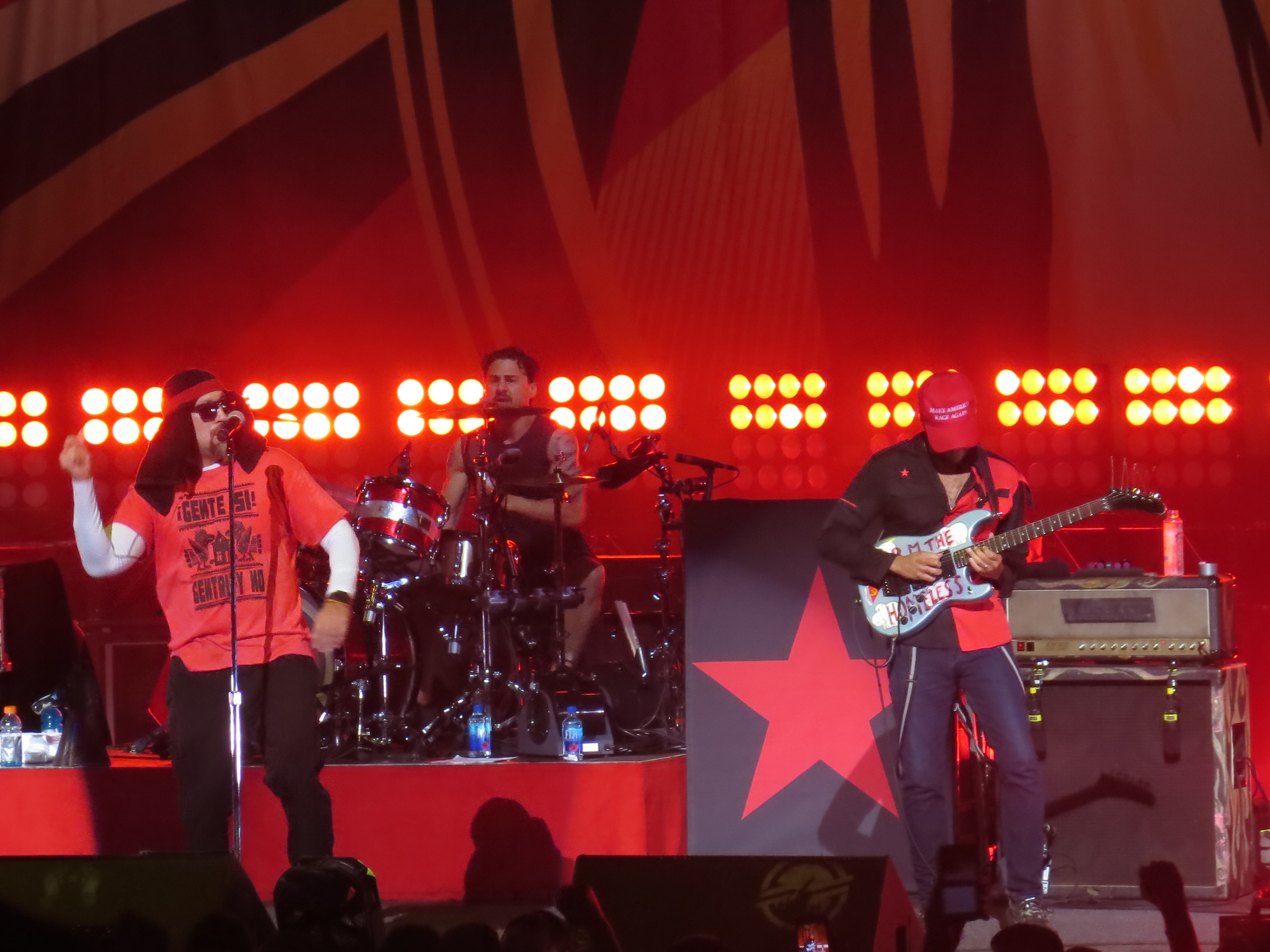 Prophets Of Rage @ Tinley Park, IL 9/3/2016